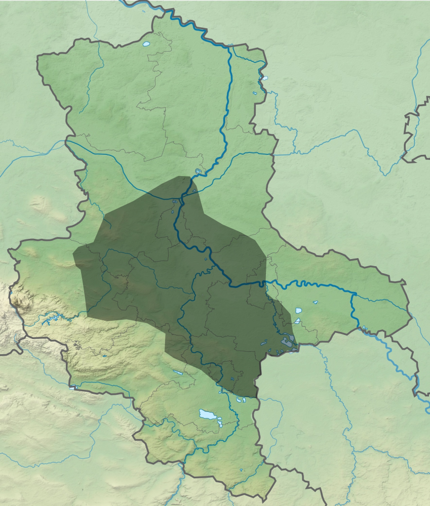 Distribution area of the House Urns culture in Saxony-Anhalt